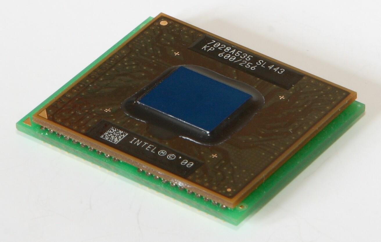 Intel Pentium III 600MHz Notebookversion